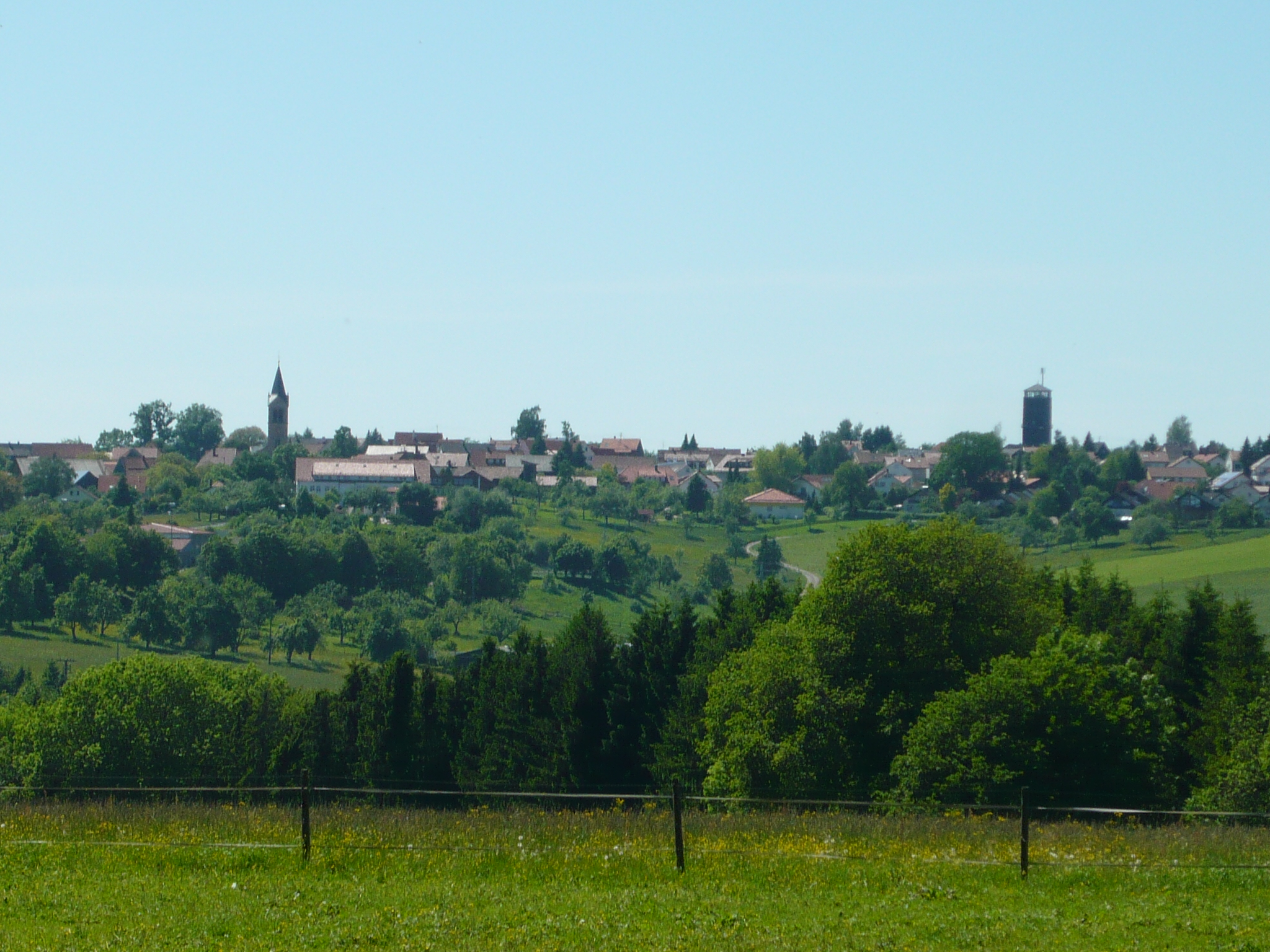 View on Kaisersbach